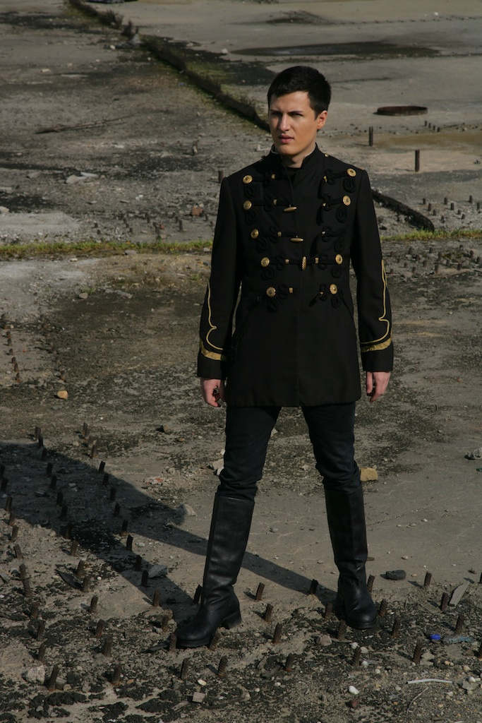 Gabriel